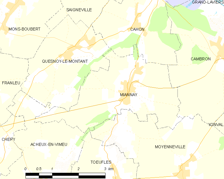 Map of French municipality Miannay